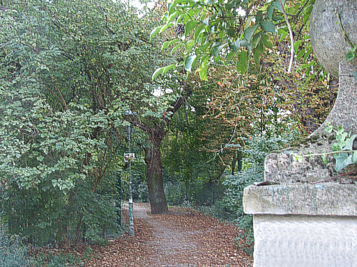 Junction of the "Zeunepromenade" with Rothenburg street at Berlin-Steglitz